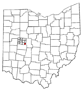 Adapted from Wikipedia's OH county maps. Created by SwissCelt.